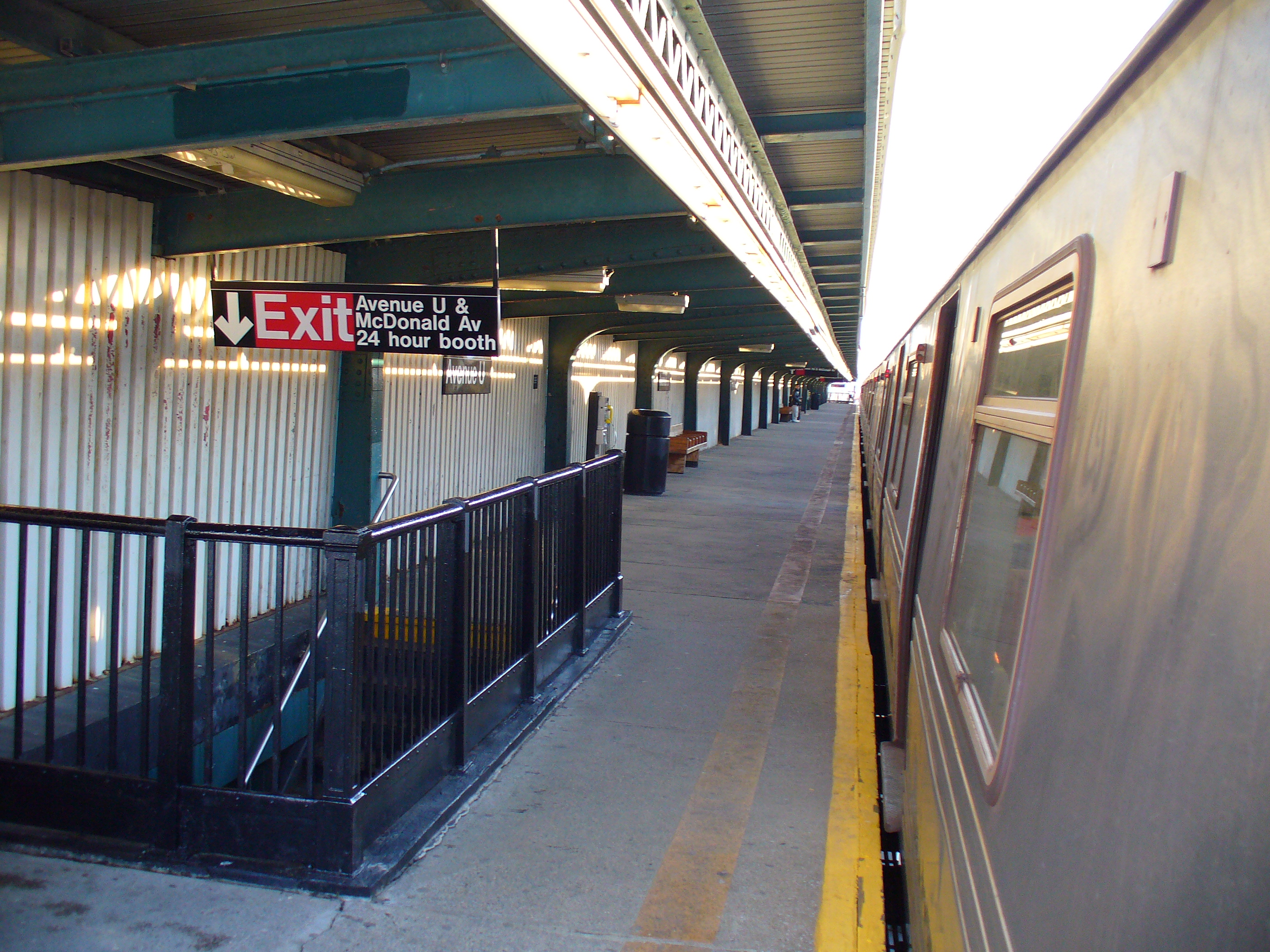 Avenue U F Line NYC Subway Station by David Shankbone